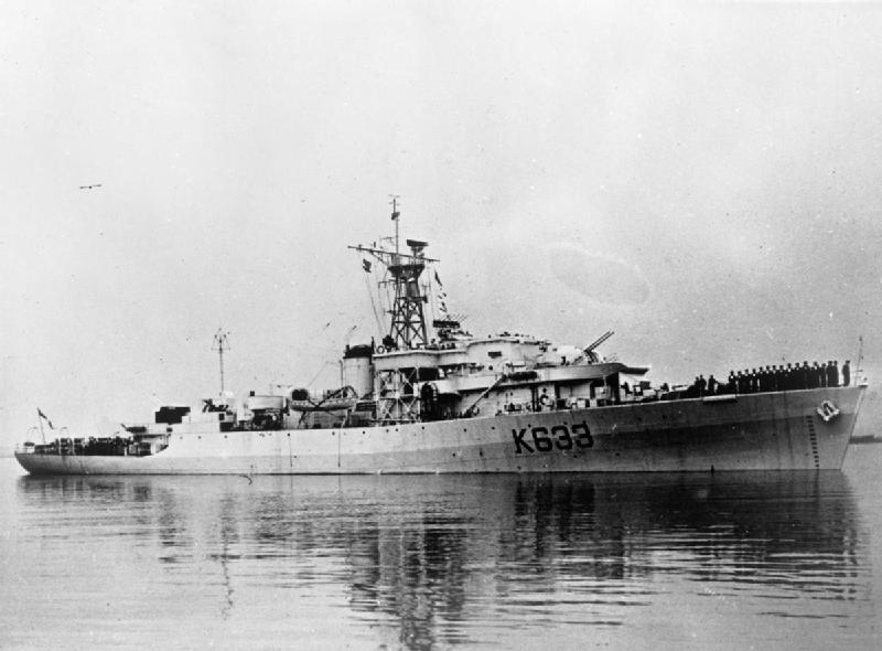 Photograph of HMS Whitesand Bay (K633).